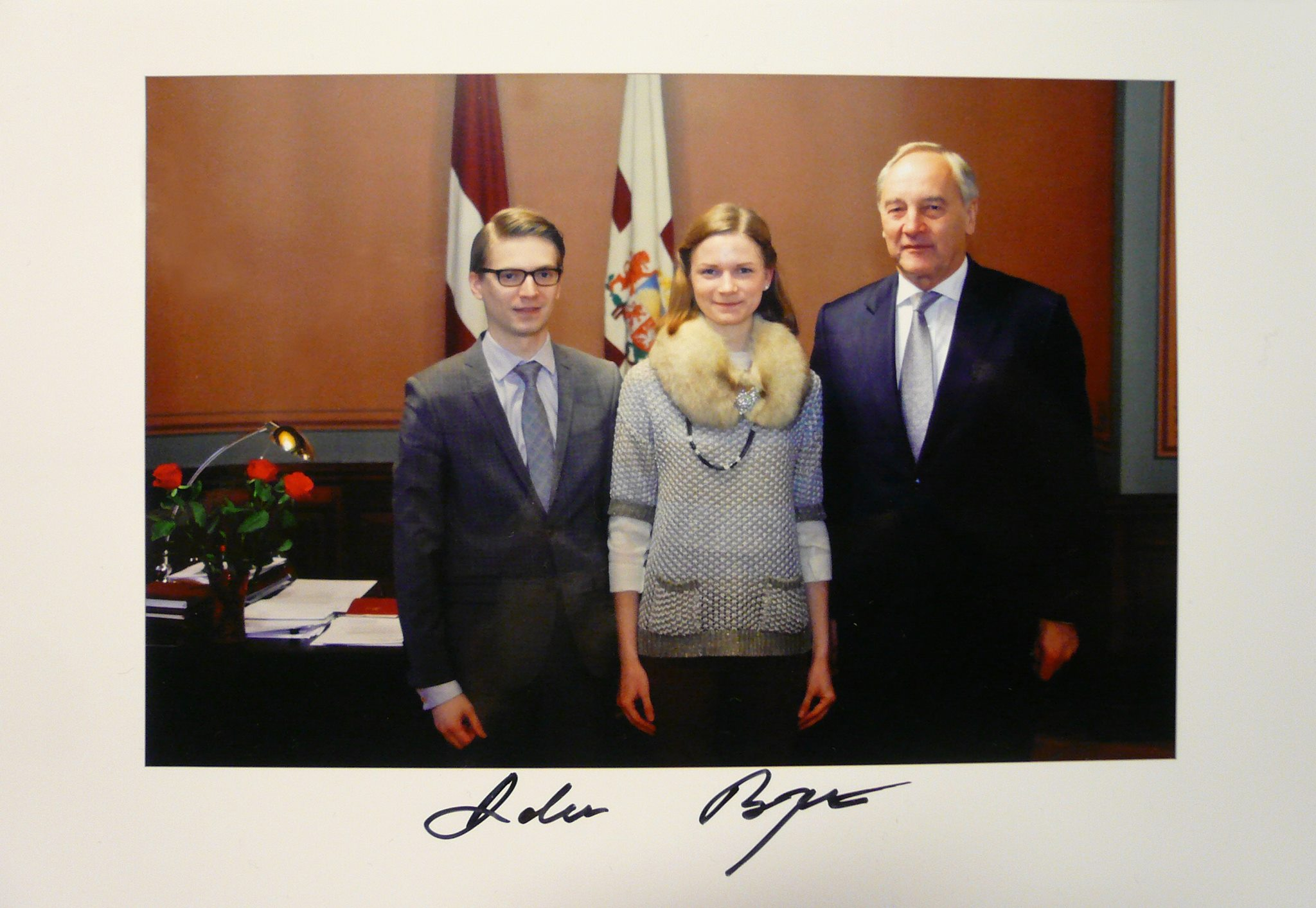 The Latvian president Andris Berzins was meeting Anda Skadmane and her brother Marcis Liors Skadmanis in December 2013, to discuss the art legacy of Daina Skadmane.